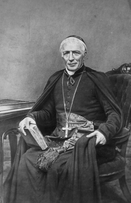 Photograph, Bishop Ignace Bourget, Montreal, QC, copied 1862, William Notman (1826-1891), Silver salts on paper mounted on paper - Albumen process - 8 x 5 cm